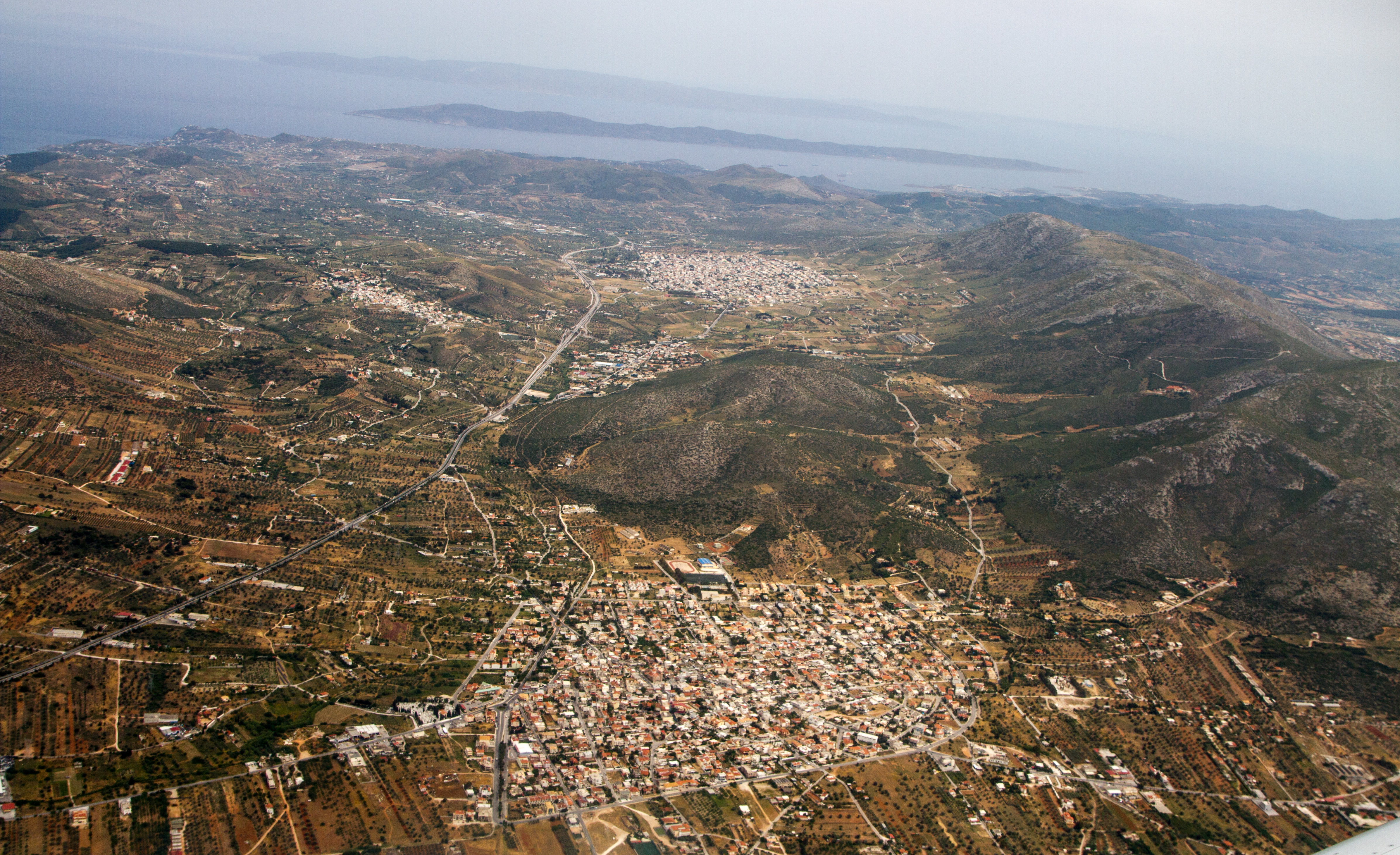 Kalyvia Thorikou (Καλύβια Θορικού)